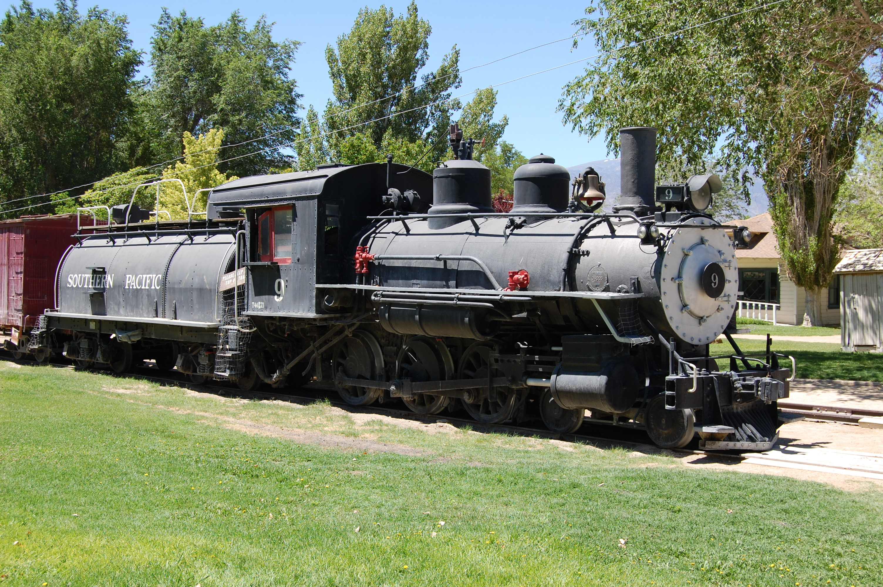 Preserved Southern Pacific Locomotive #9 in Laws, California. According to the manufacturer plate, it was manufactured in November 1909 by Baldwin Locomotive Works in Philadelphia. The color scheme shows the SP policy of painting the front of the locomotive silver to increase visibility.